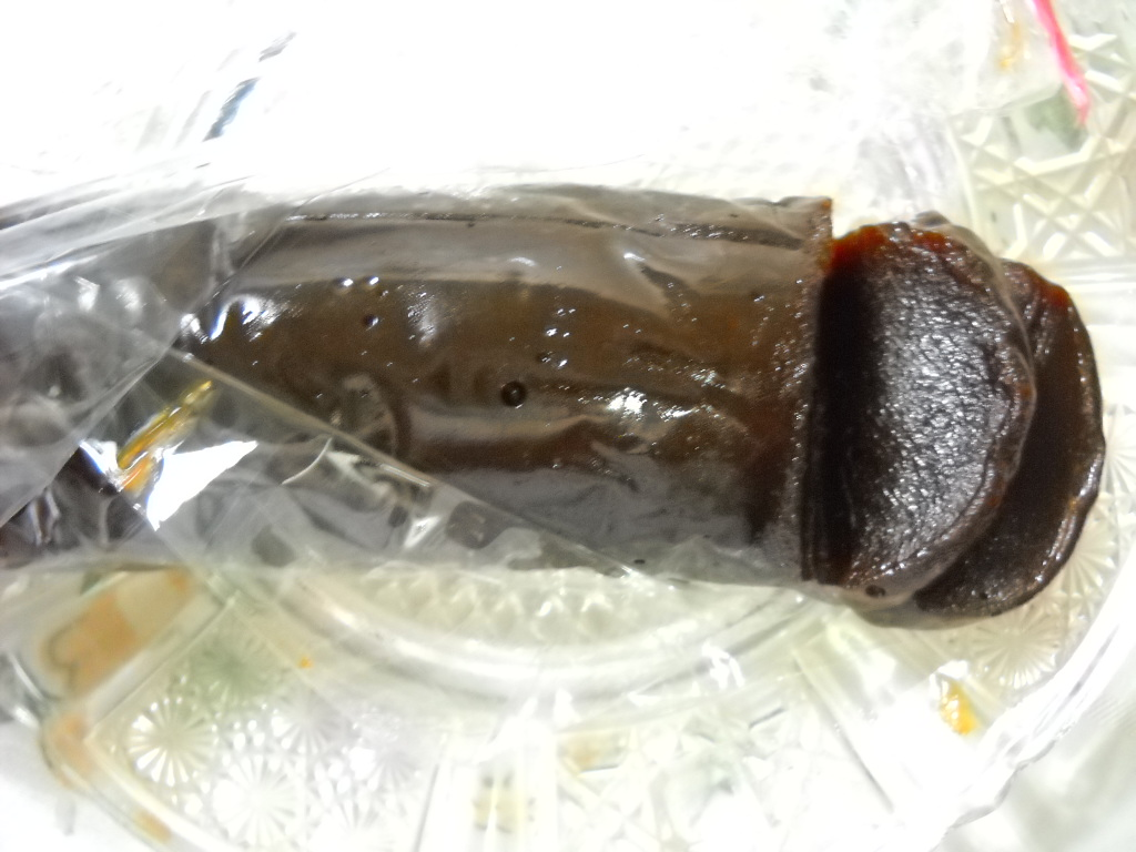 Dodol or sweet sticky cake from Bangka Island.